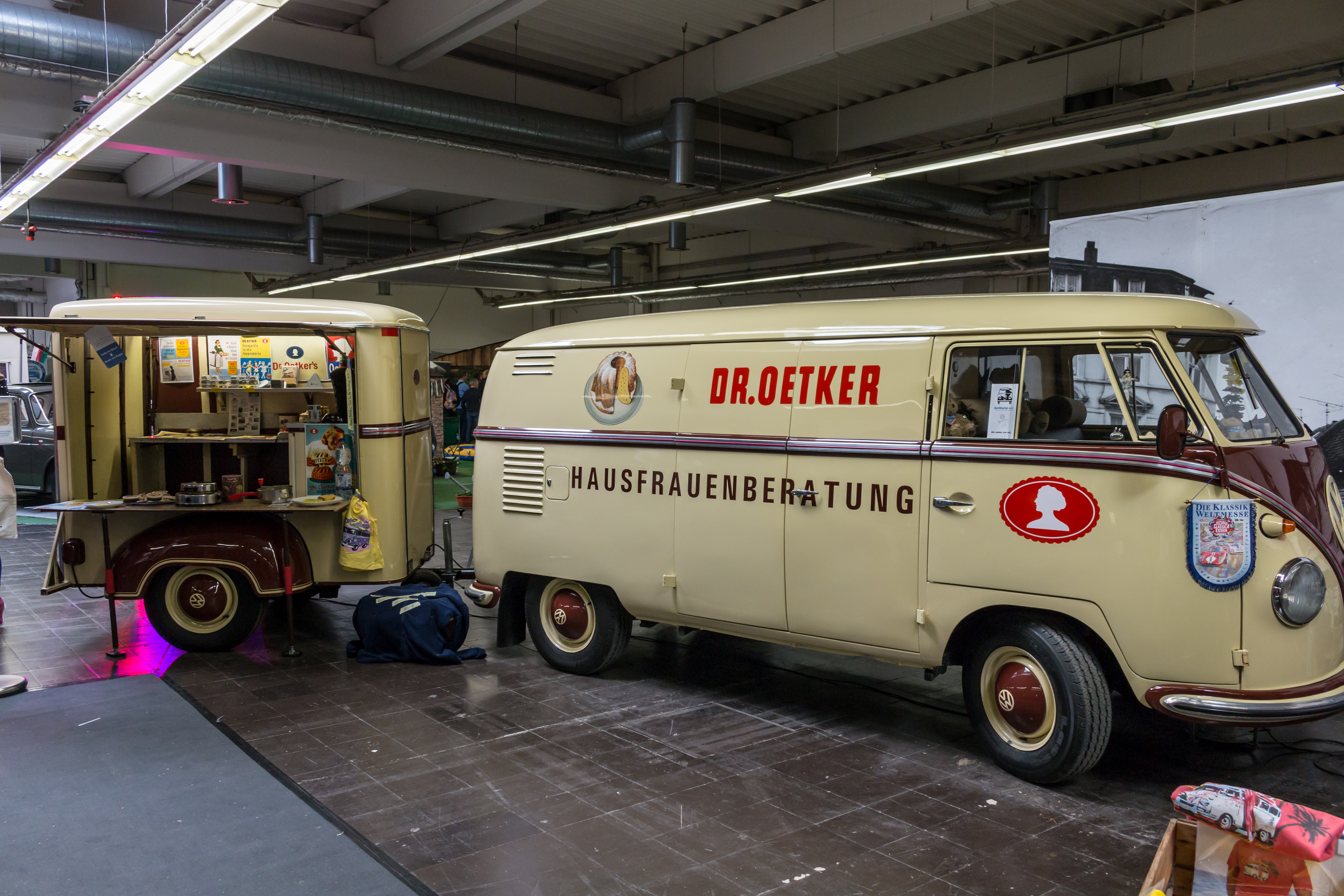 Techno Classica 2018, Essen